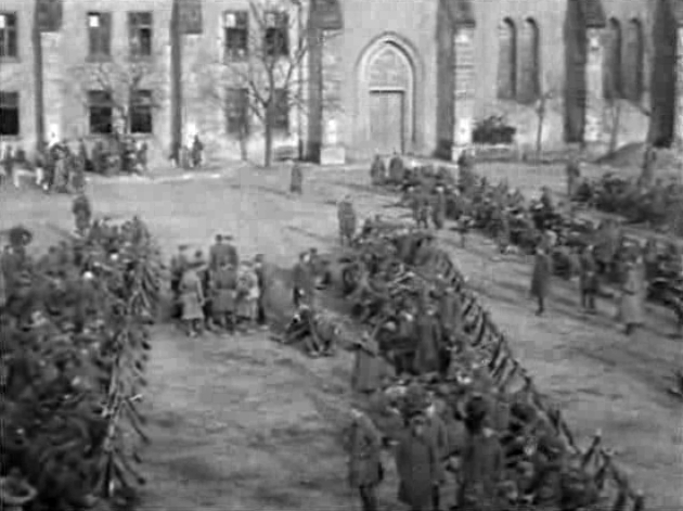 U.S. Army occupation troops from the 1st Infantry Division at the Maximin barracks in Trier, Germany, November 1918.